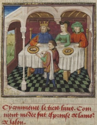 Jason lunching with Aeetes and Medea, from a French translation of "Historia destructionis Troiae", ms BNF français 22553